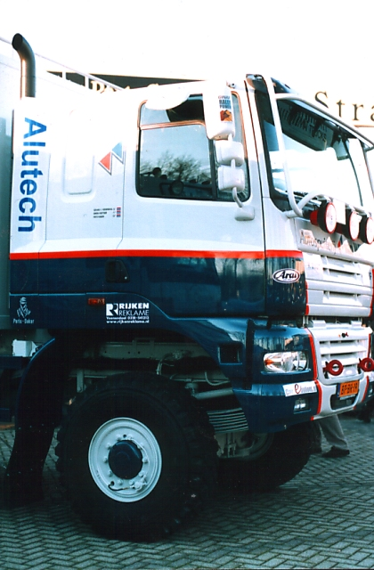 GINAF service truck that participated in the Paris-Dakar rally three times since 2004. Photo made by my father during the official presentation of the truck in 2004, scanned by me in 2006.